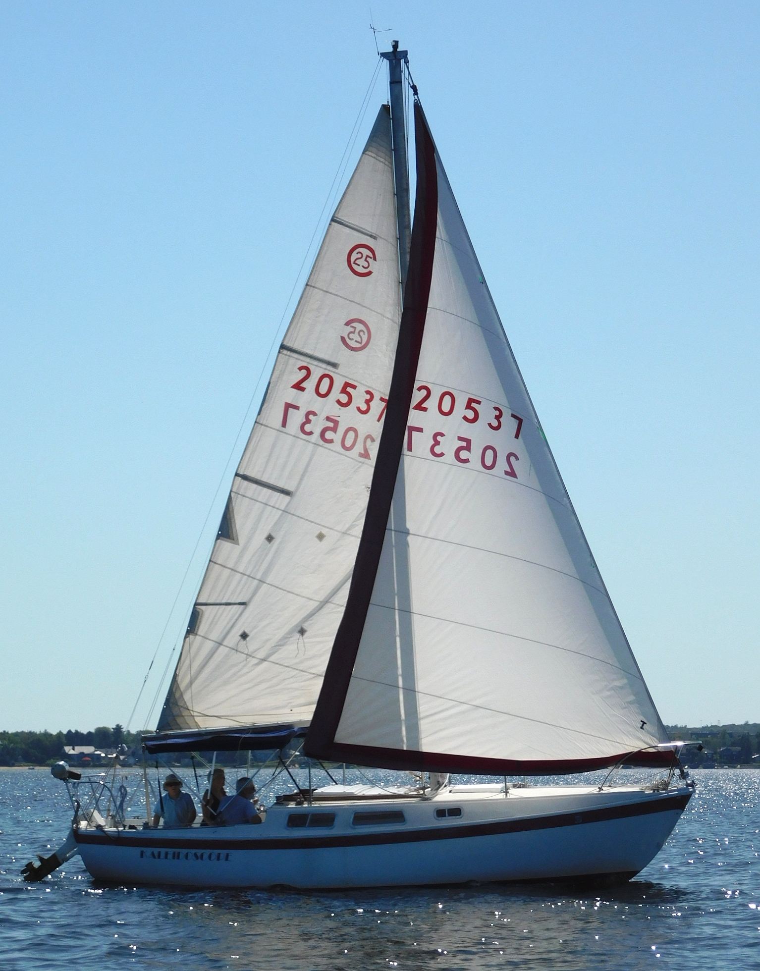 A Cal 25 sailboat named Kaleidoscope.